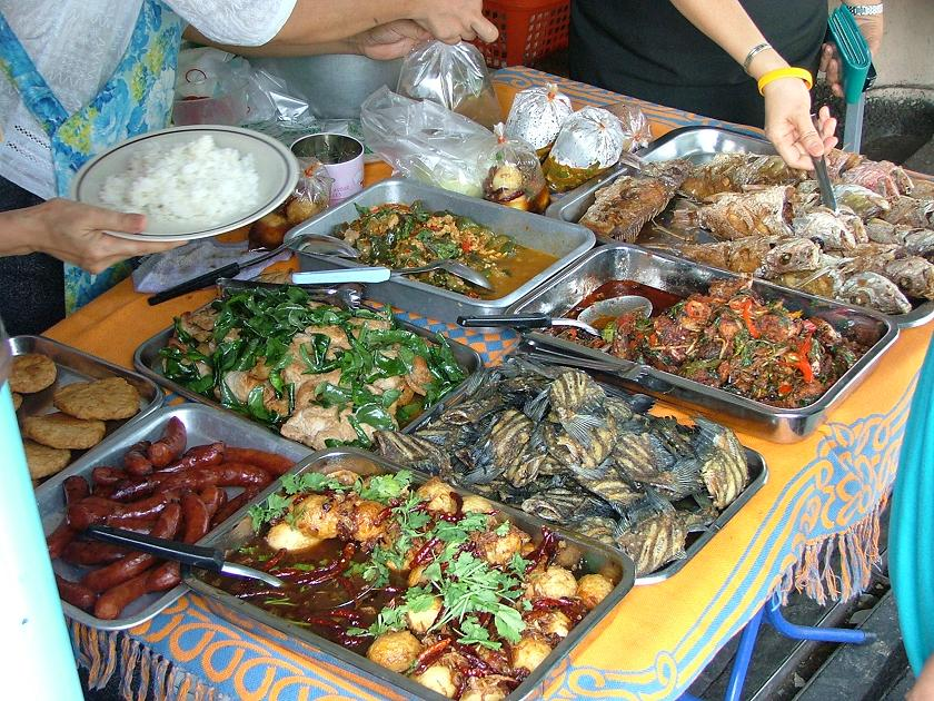 Typical Thai Food in Street-cusine. Bangkok.